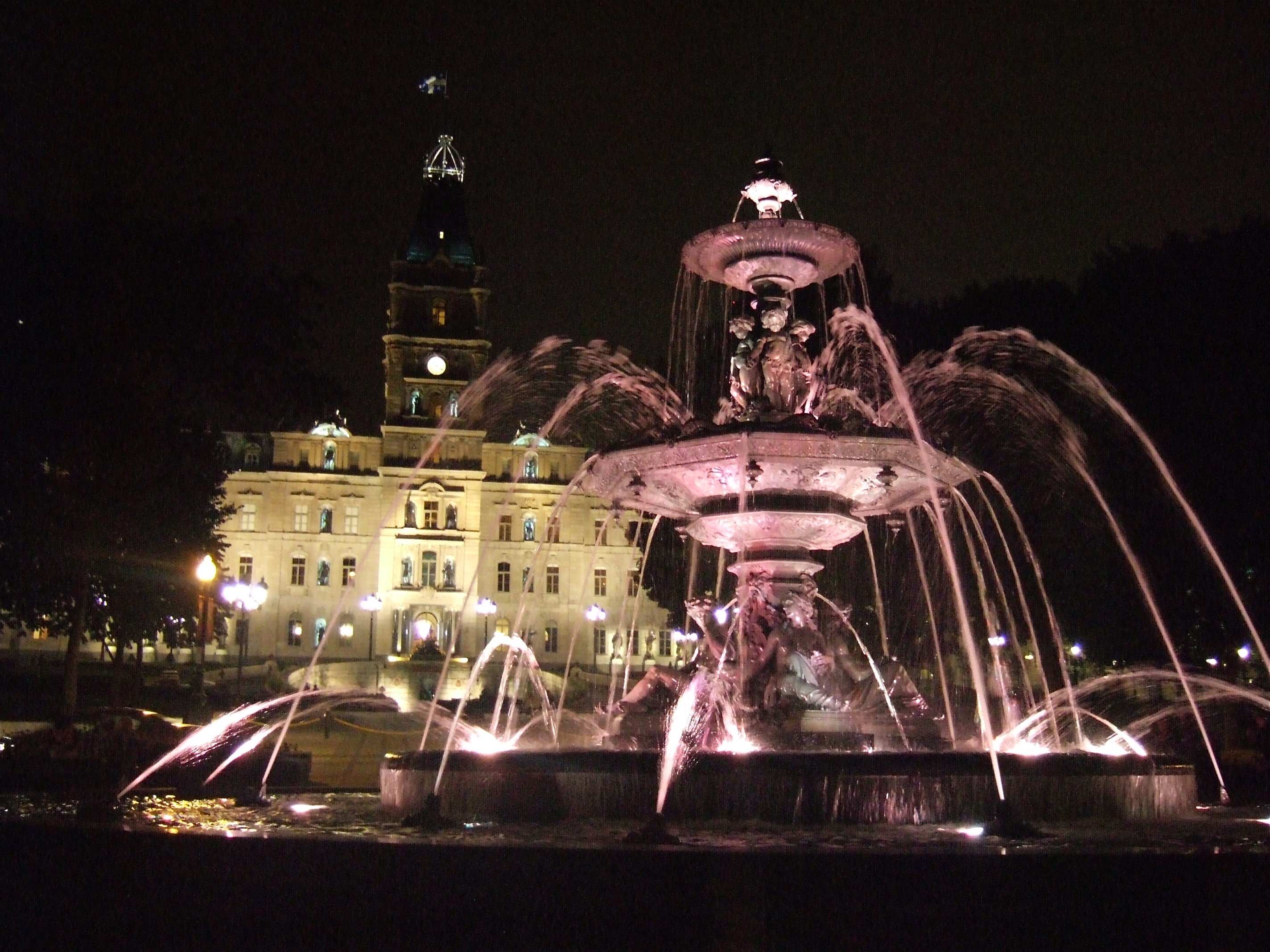 The Fontaine de Tourny, in front of the main entrance of the Parliament Building in Quebec City. The fountain, which was inaugurated on 3 July 2007, was crafted by French sculptor Mathurin Moreau during the second half of the 19th century. It was formerly installed in Bordeaux (France).